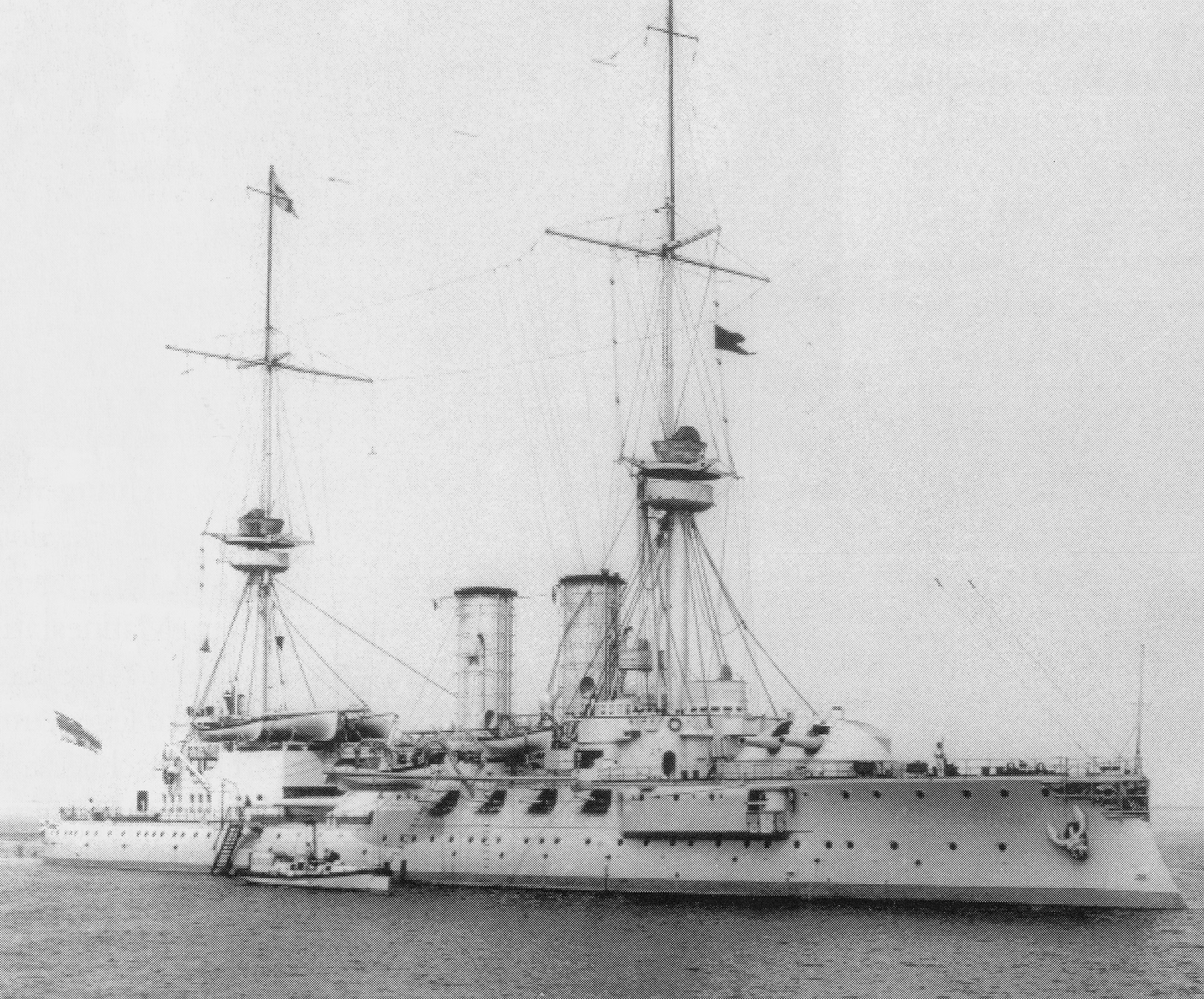 The German battleship SMS Kurfürst Friedrich Wilhelm in 1910.